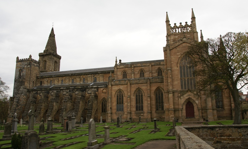 Dunfermline Abbey, Fife, Scotland - abbey church from the south